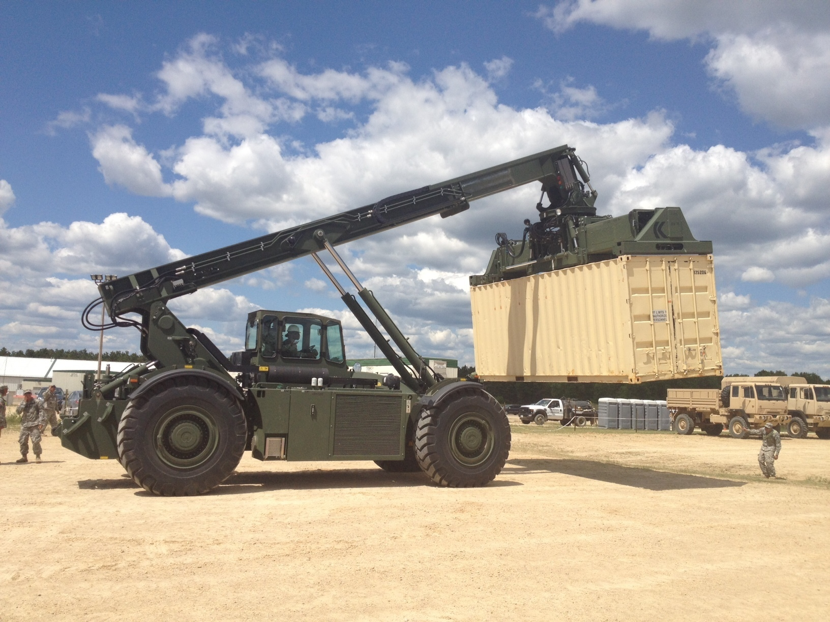 Soldiers with the 453rd Inland Cargo Transportation Company out of Houston, Texas, move a 20-foot cargo container during Exercise Red Dragon 2012 at Fort McCoy, Wis.